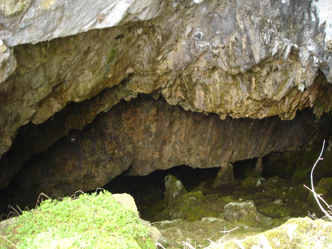 Bozgunova cave, near Patiška Reka, Macedonia